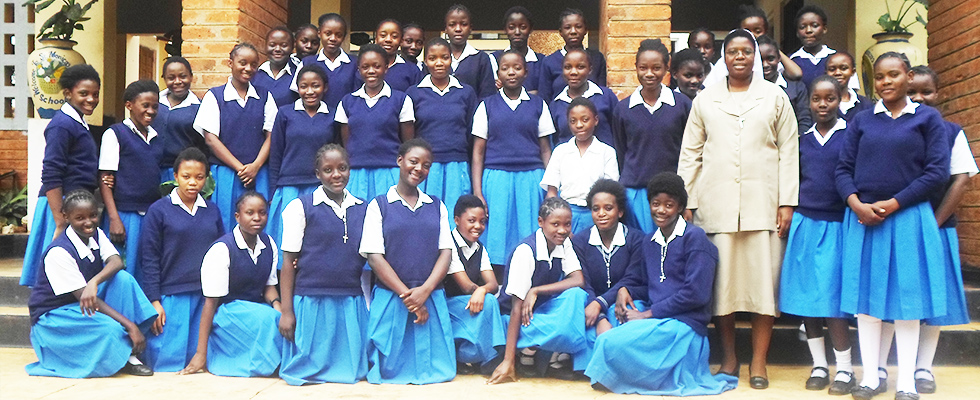 Pupils at the prestigious St Monicas Girls Secondary School in Chipata, Eastern Province